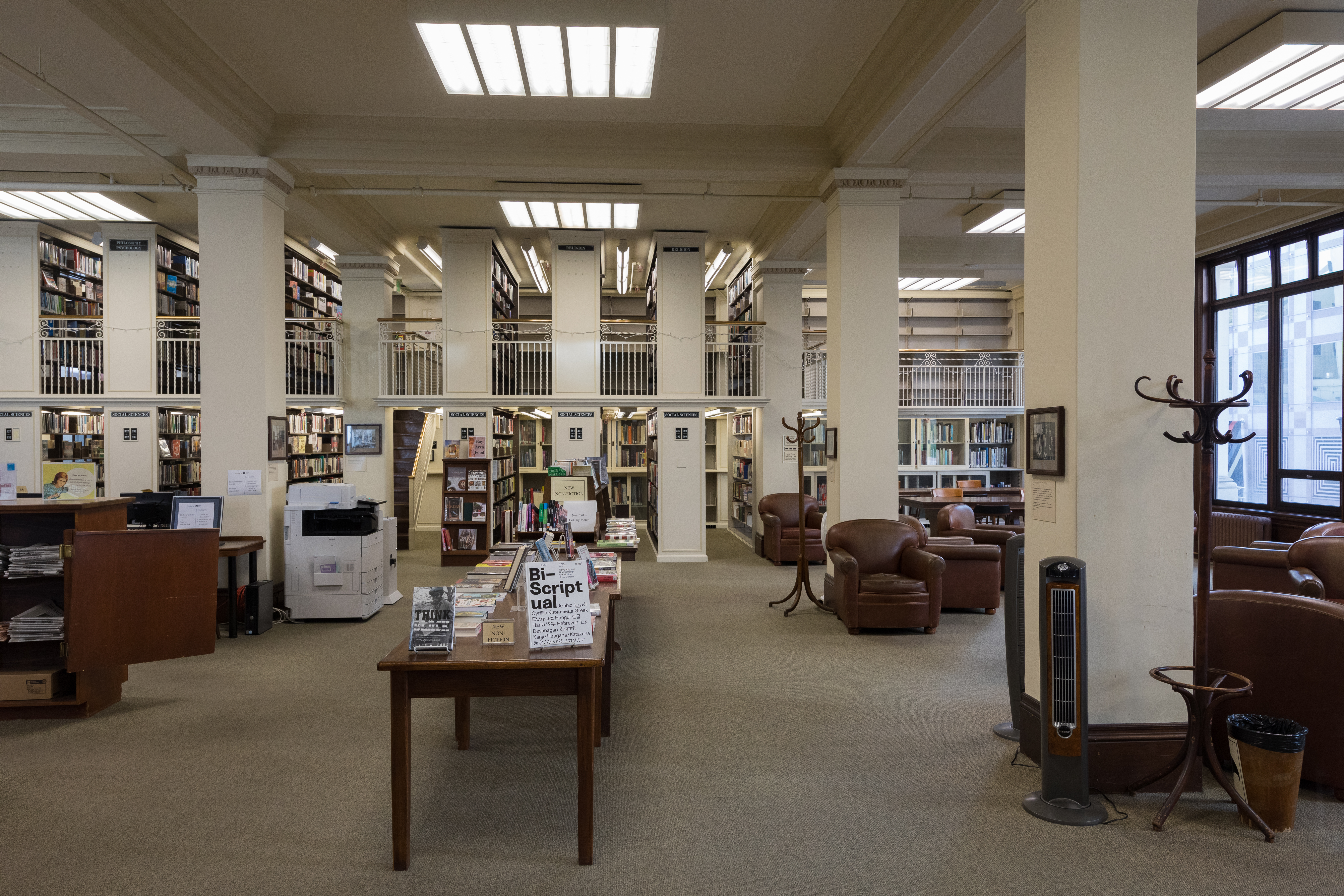 Library floor of the San Francisco Mechanics’ Institute in January 2020